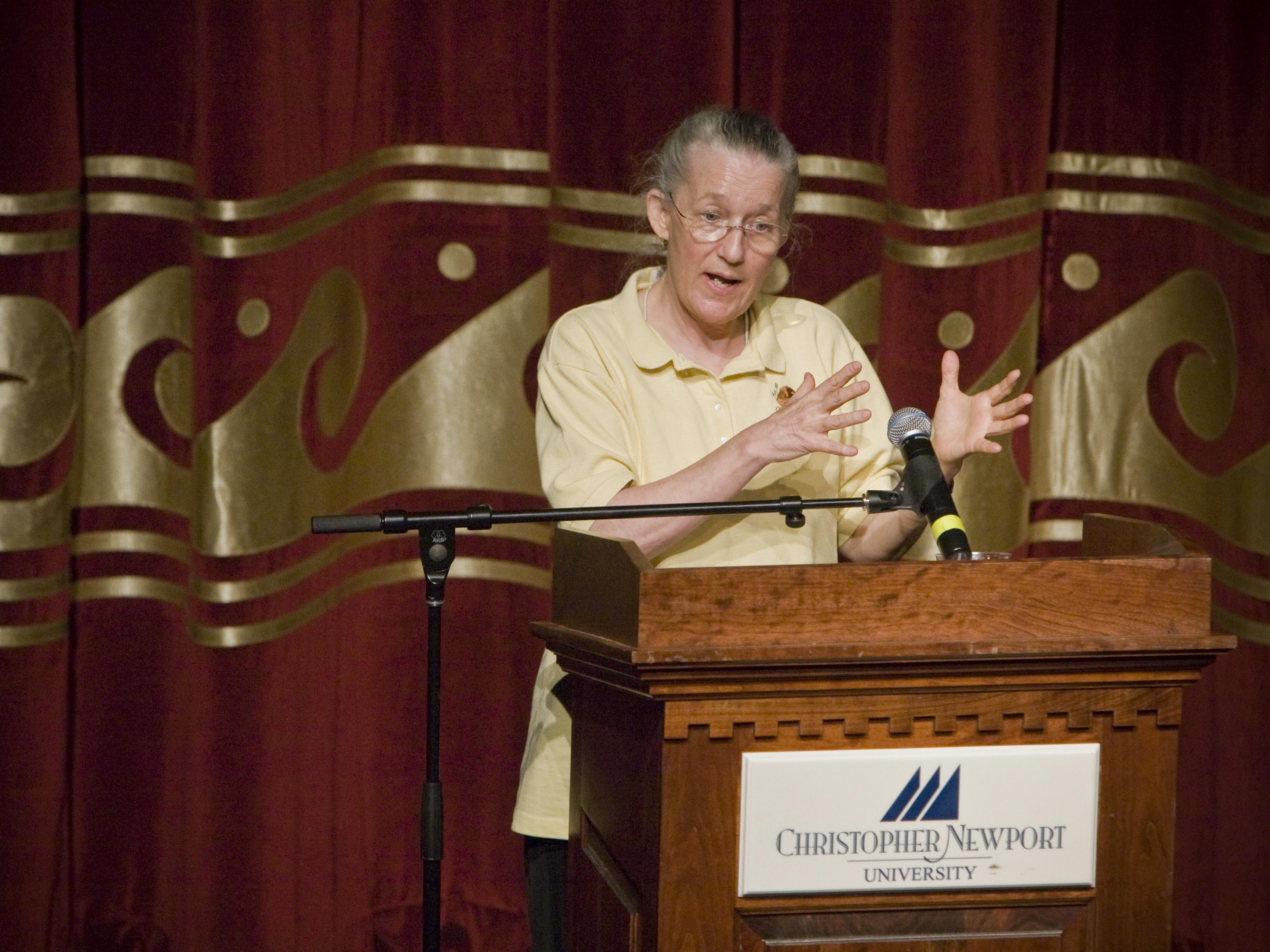 Former NASA Astronaut Mary Cleave gives the keynote address at EarthFest, addressing the guests on the importance of studying our home planet.